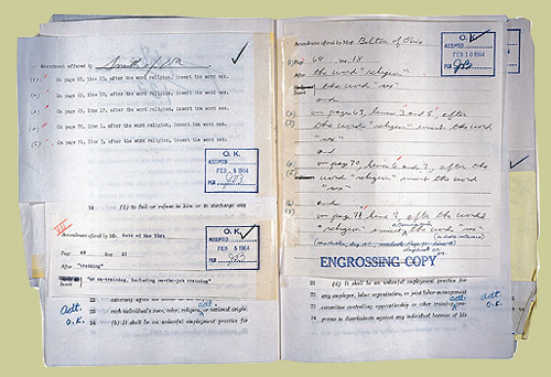 Engrossing copy of H.R. 7152, open to pages showing amendments adding "sex" to the Civil Rights Act of 1964